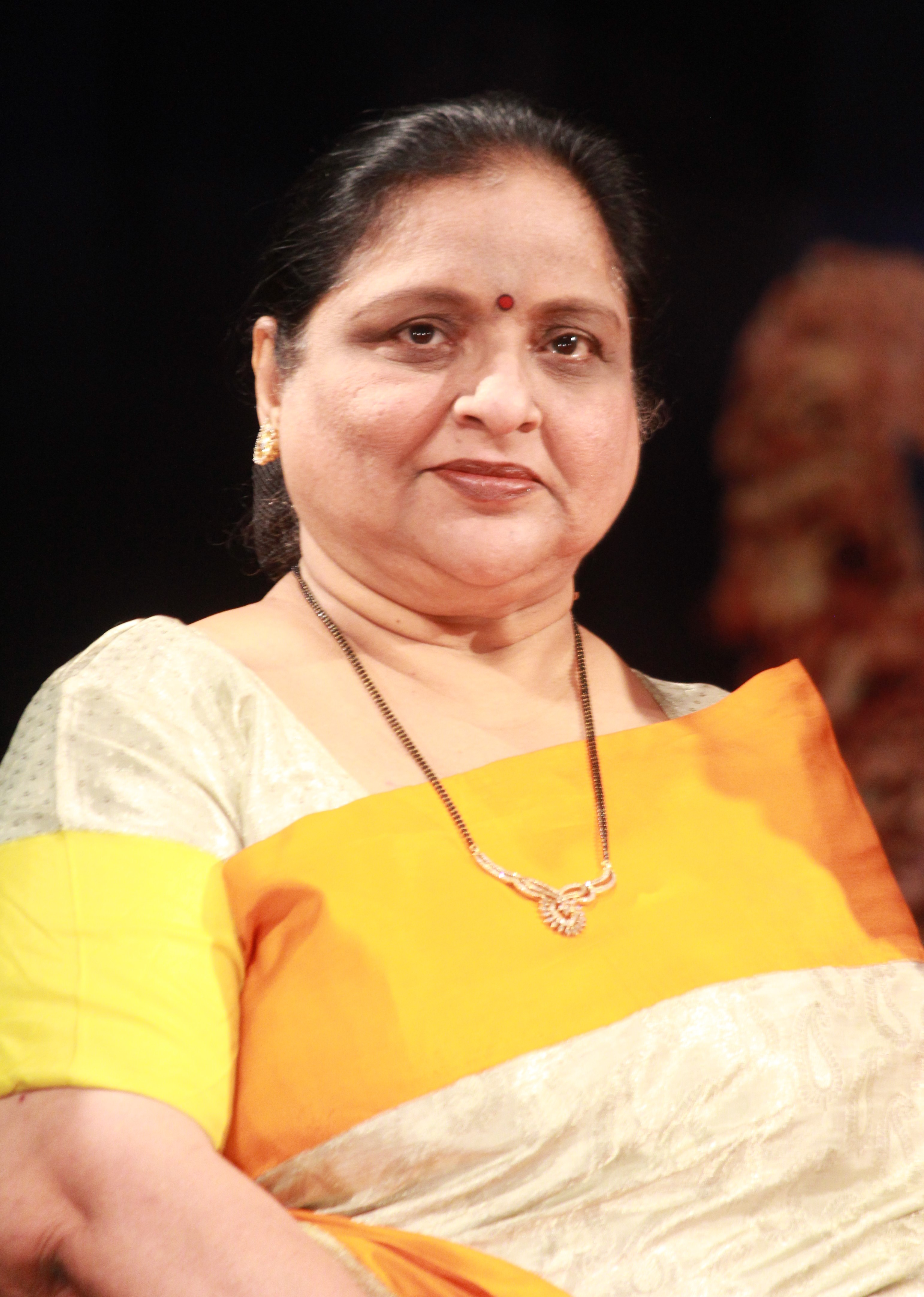 Roja Ramani 1 at a private program in Ravindrabharathi